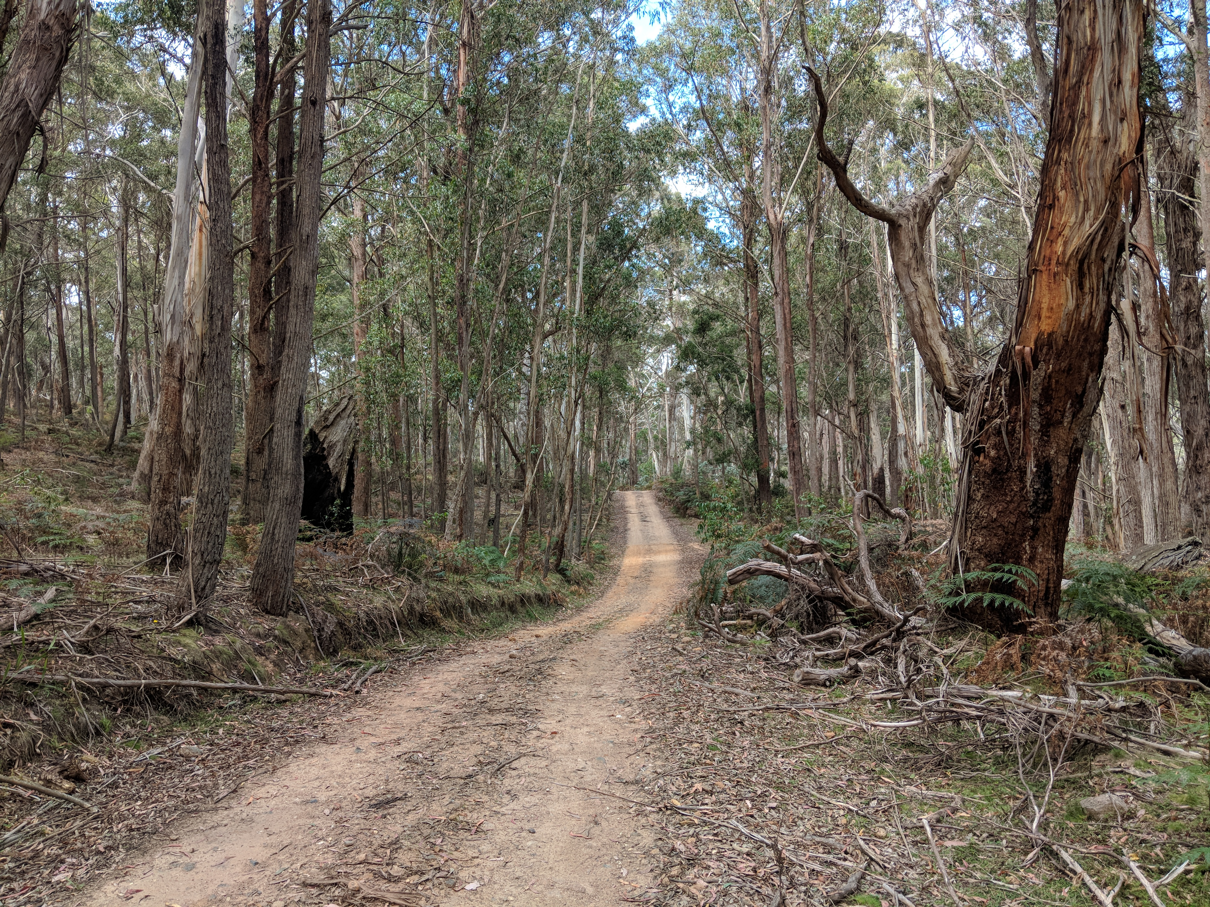 Tallaganda National Park, Mulloon Fire Trail, Palerang